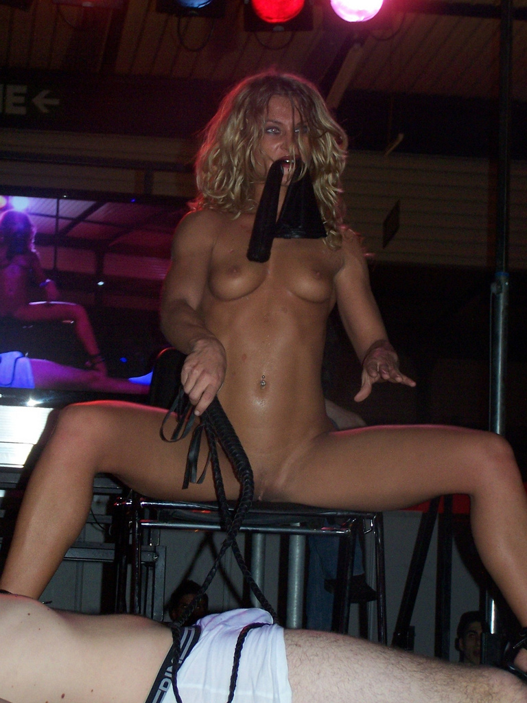 Eropolis Toulouse 2008